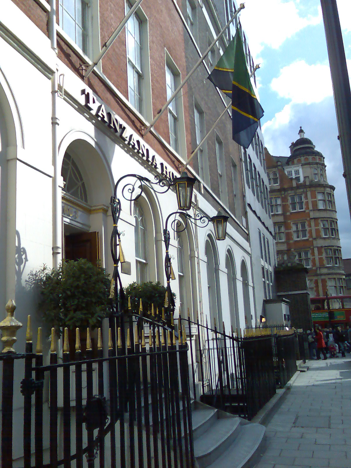 In Stratford Place, London - close to Bond Street Station